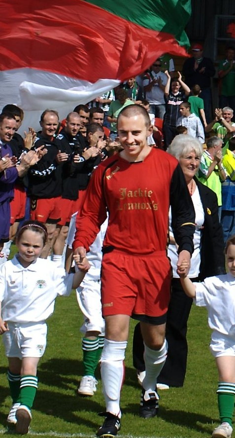 Neal Horgan received a guard of honour at his testimonial game.